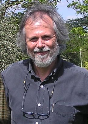 Spencer Barrett, Canadian ecologist